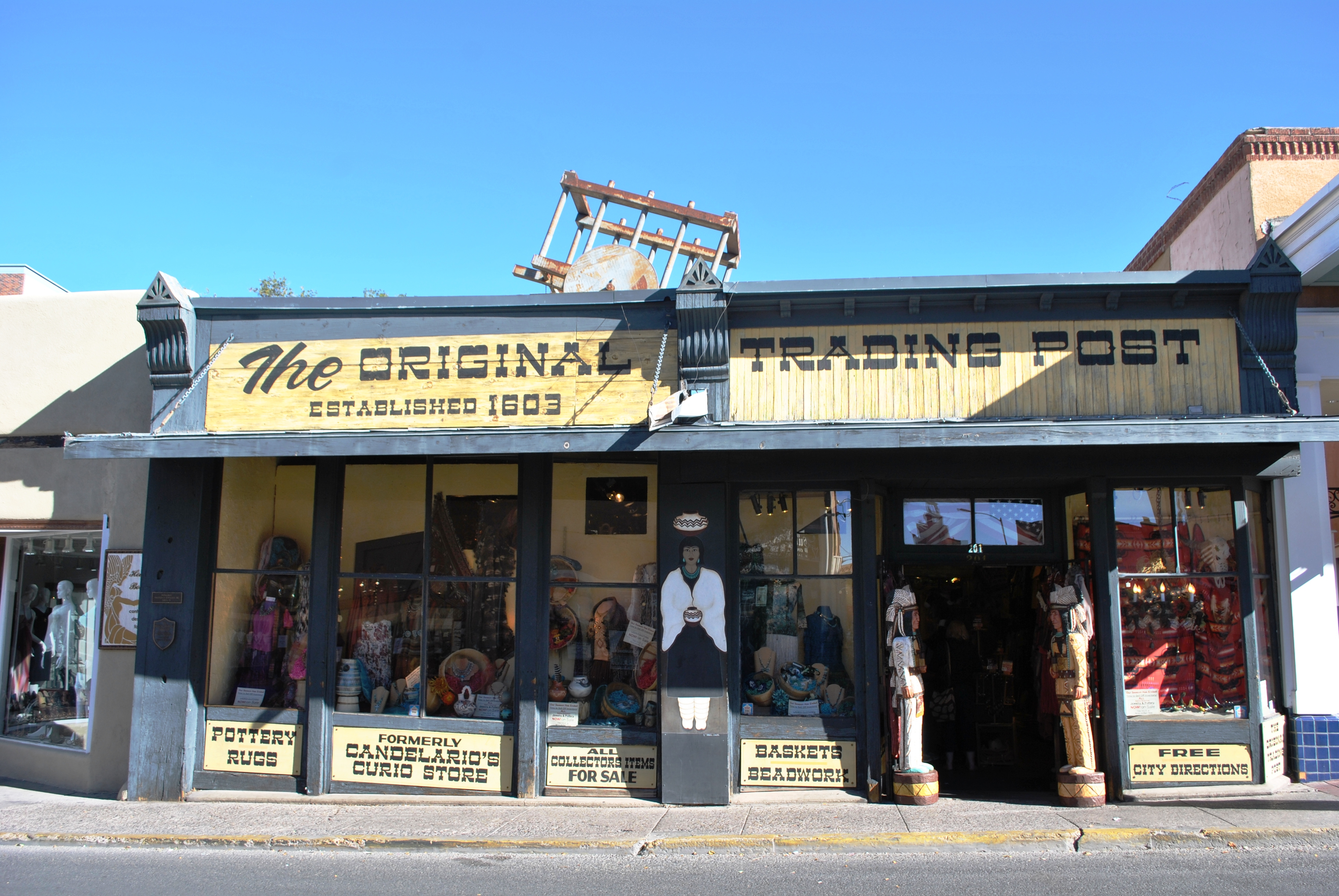 Santa Fe, New Mexico